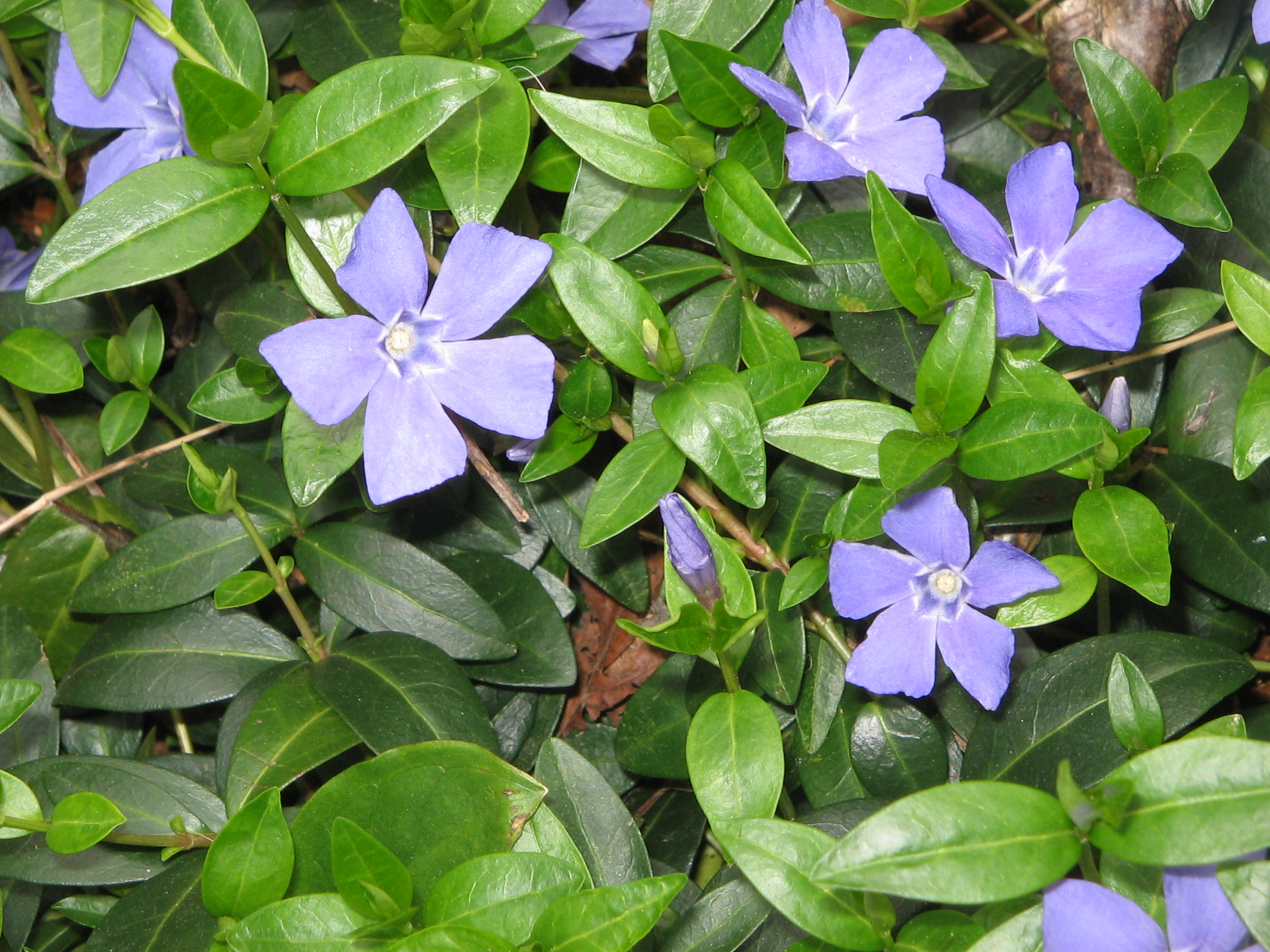 Vinca minor